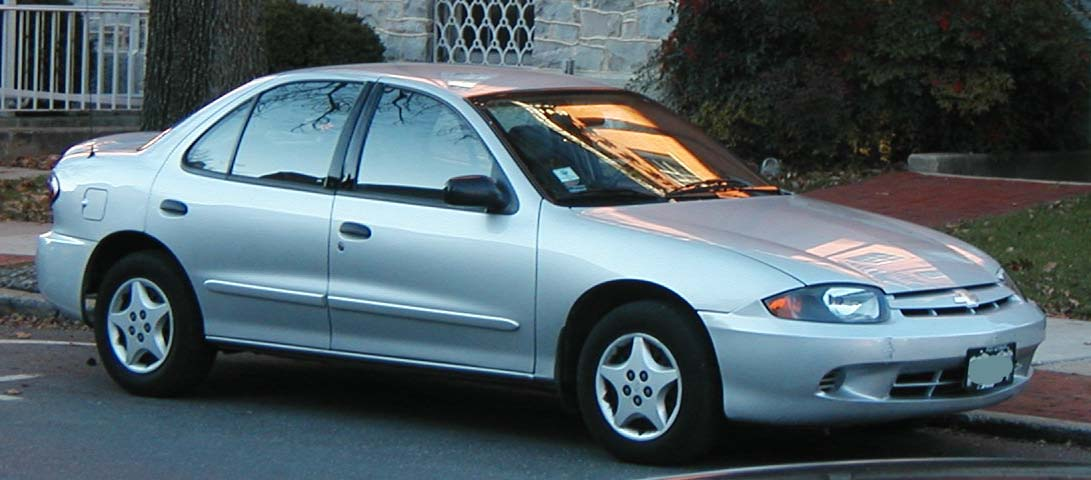 2003-2005 Chevrolet Cavalier photographed in USA.